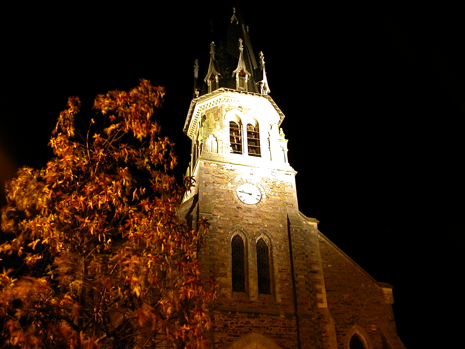 Church of Jans